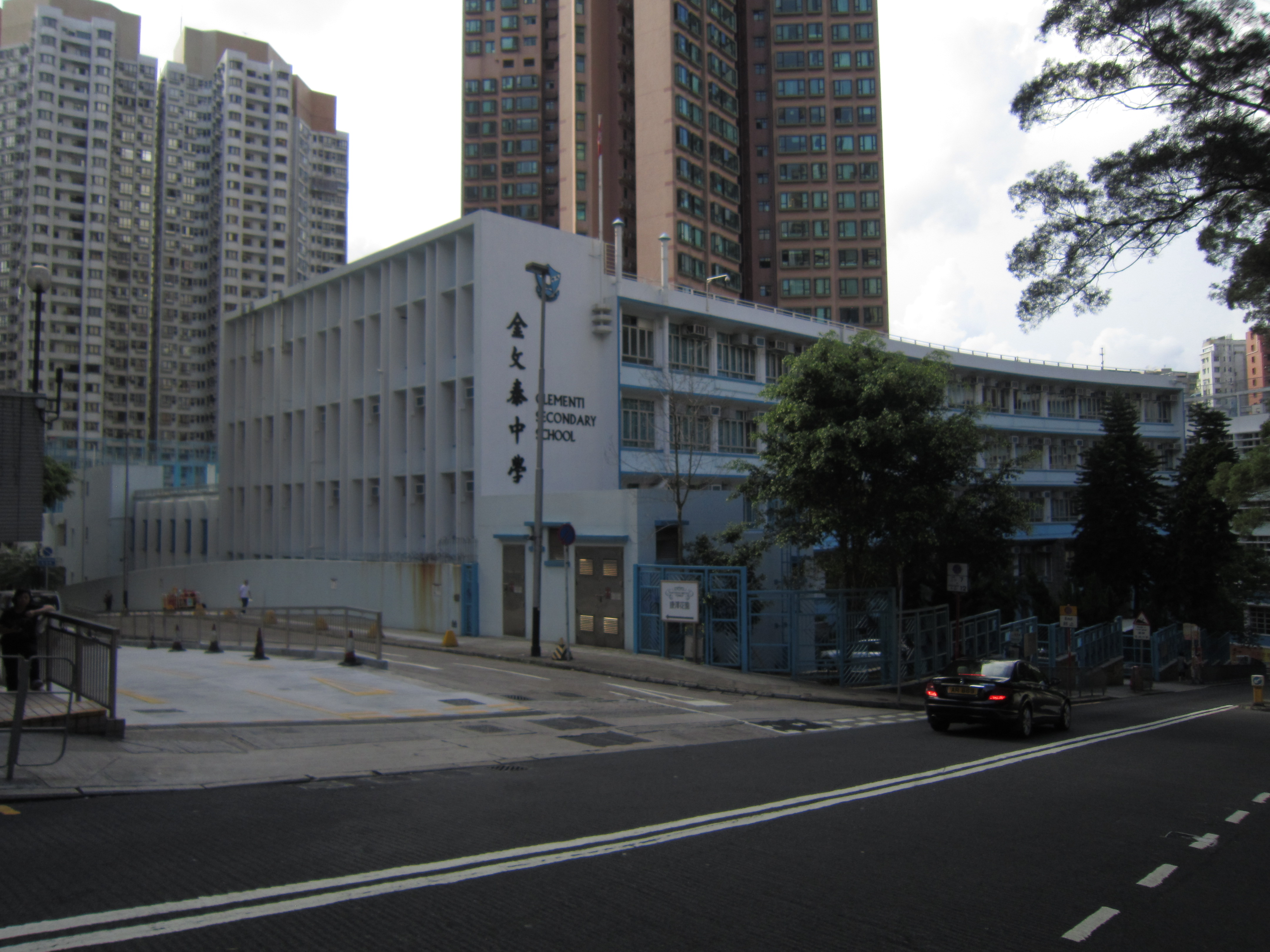 Clementi Secondary School campus